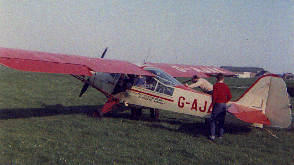 Thanet Flying Club. Taken in Summer 1966